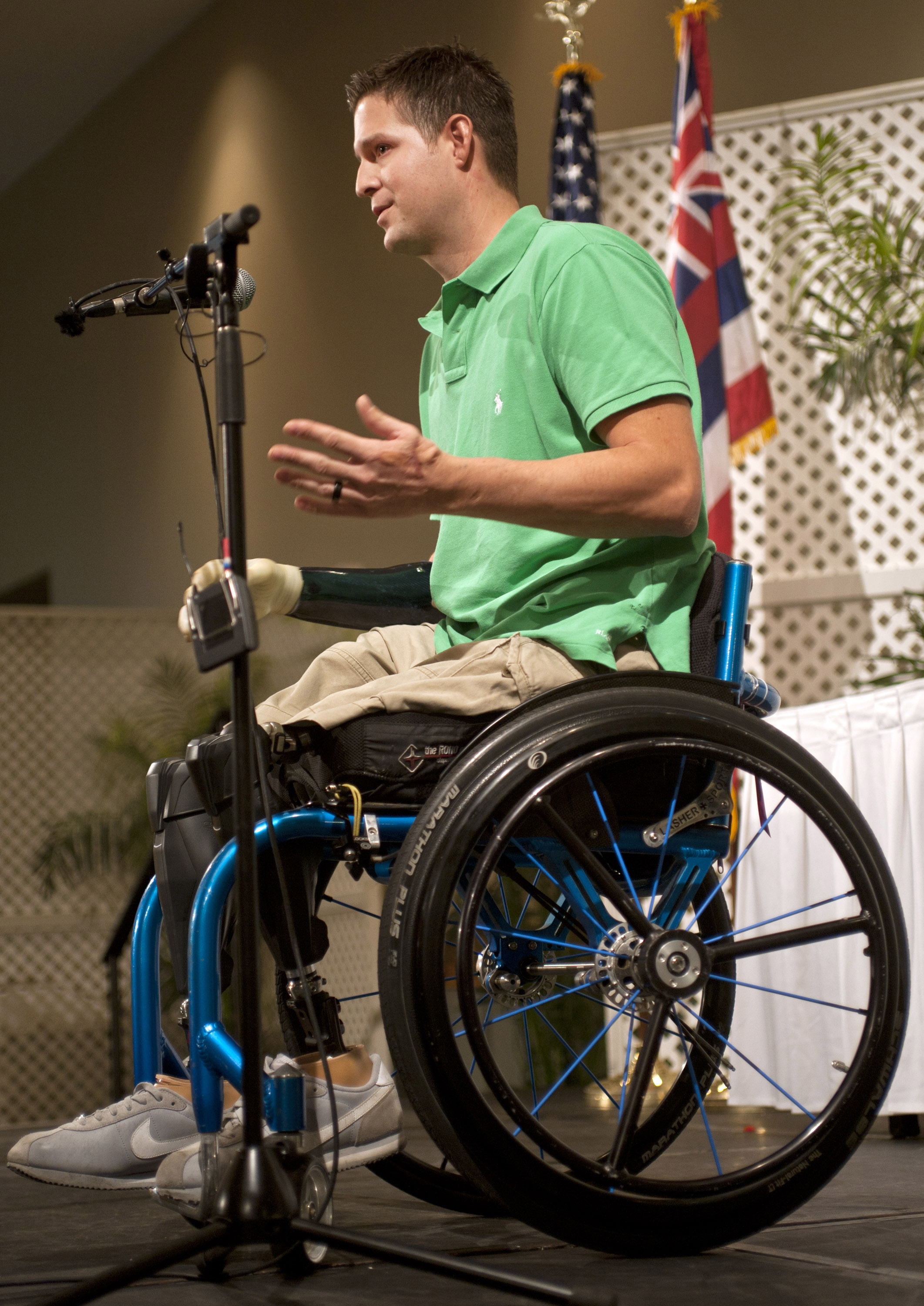 121116-N-WF272-084 HONOLULU (Nov. 16, 2012) Retired Senior Airman Brian Kolfage, keynote presenter and wounded warrior, addresses the audience during the 52nd Annual Navy League Sea Service Awards Luncheon at the Ala Moana Hotel. 42 select senior enlisted members and junior grade officers of the Navy, Marine Corps and Coast Guard received awards for leadership and outstanding performances. (U.S. Navy Photo by Mass Communication Specialist Seaman Diana Quinlan/Released)